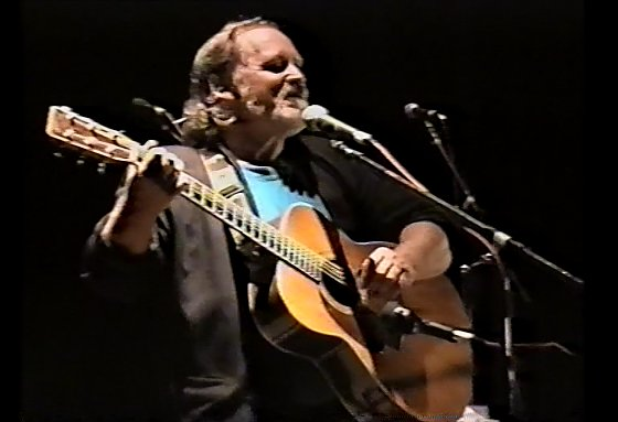 Eric Bogle (Scottish/Australian singer-songwriter) on stage at the 1994 Tamar Valley (George Town) Folk Festival (Tony Rees photograph)